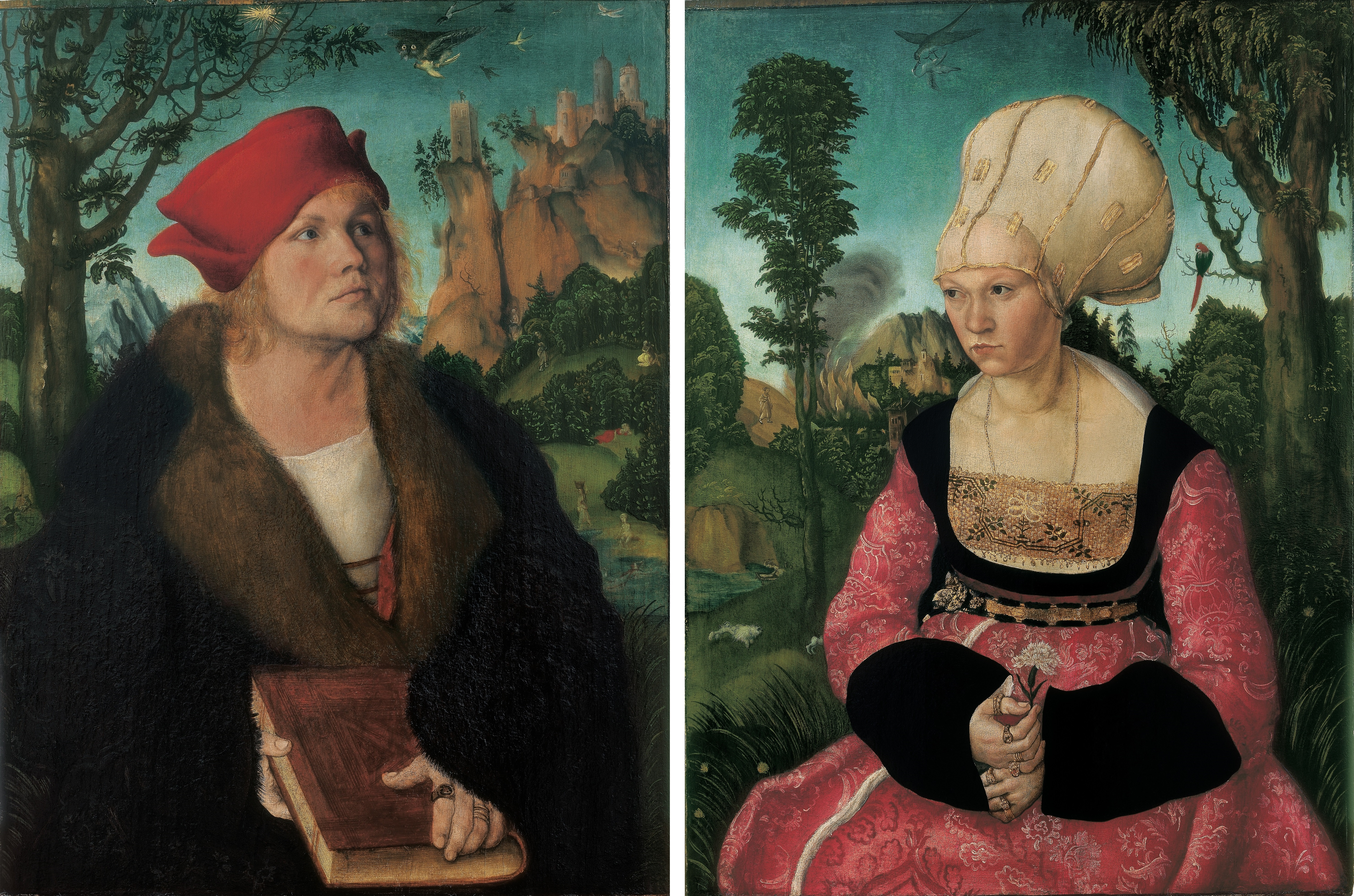 The Wedding Portrait of Dr. Johannes Cuspinian at the age of 29 and Anna Cuspinian-Putsch at the age of 18